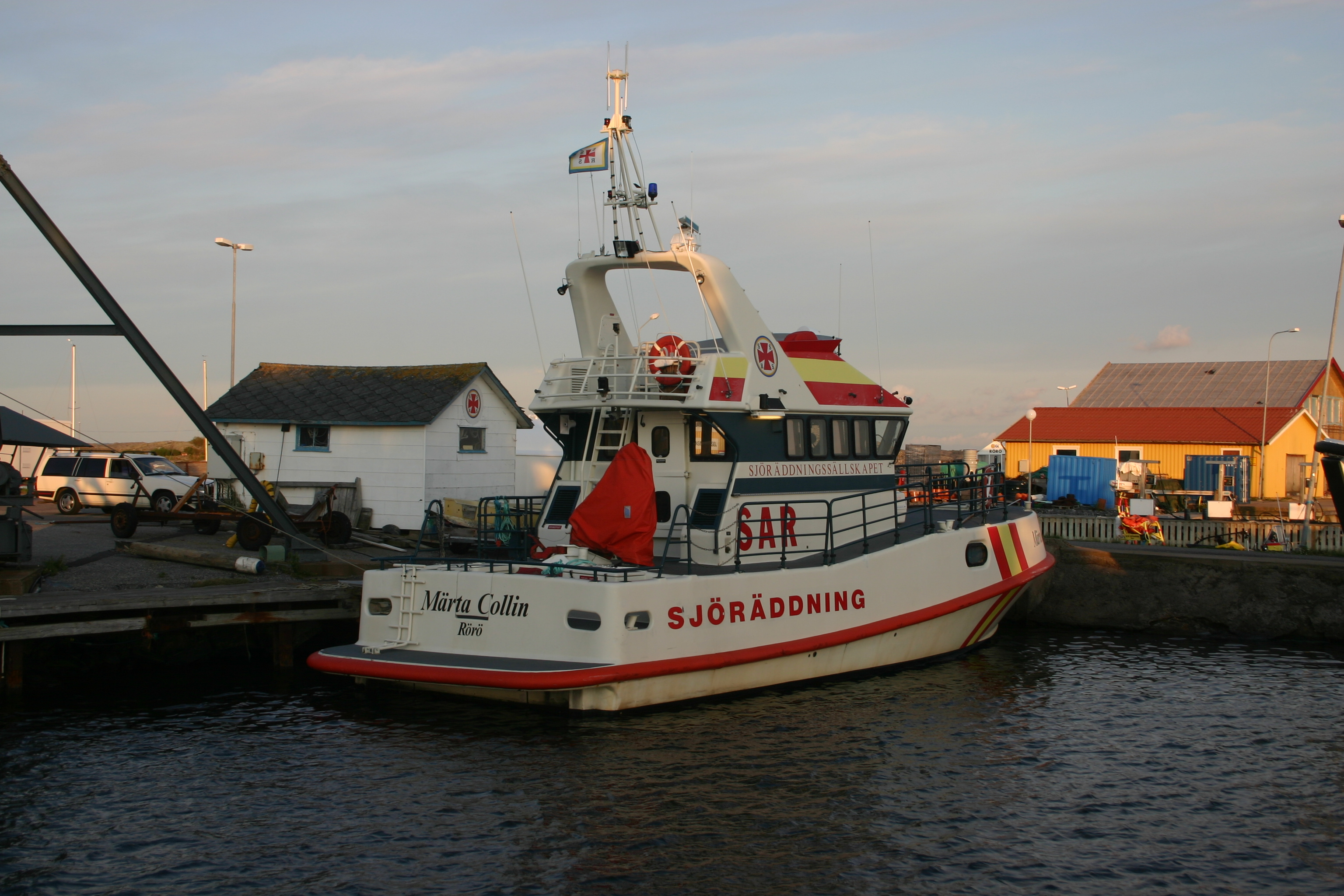 Swedish search and rescue boat, Marta Collin SSRS